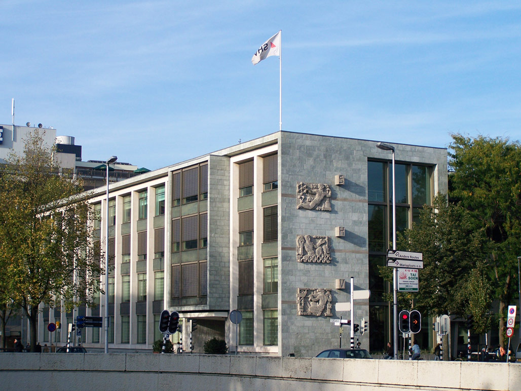 Head Office of the SHV in Utrecht, at the Catherijnesingel.